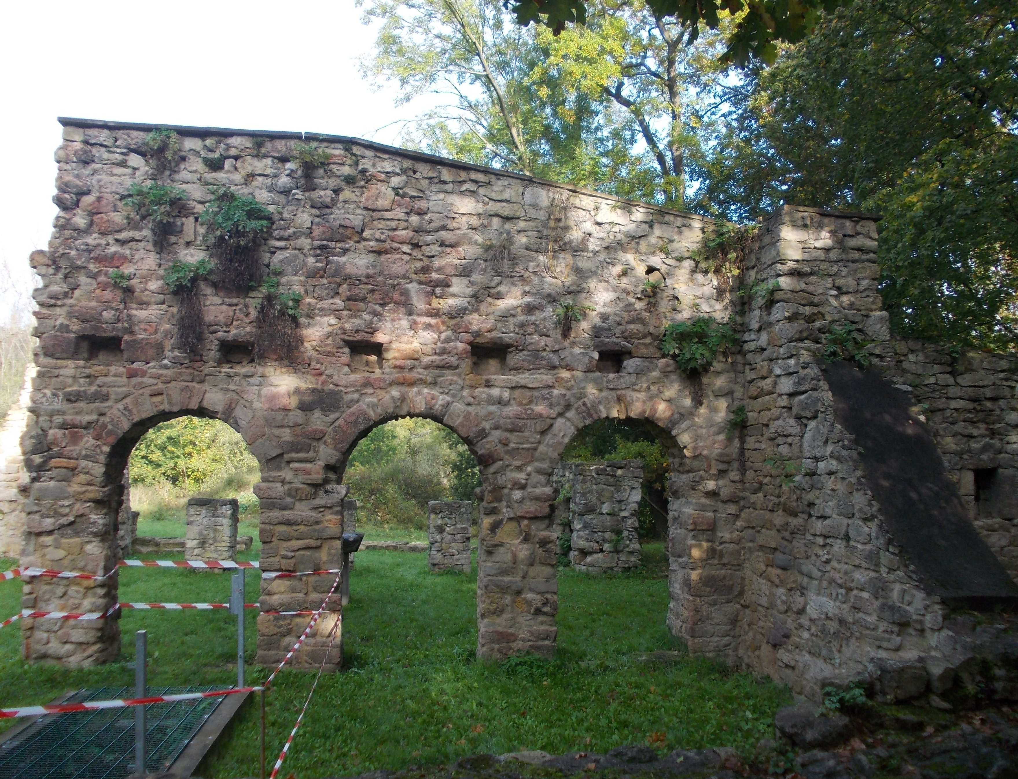 The ruins of St. Cyriacus' Church near Camburg (Dornburg-Camburg, district: Saale-Holzlandkreis, Thuringia)